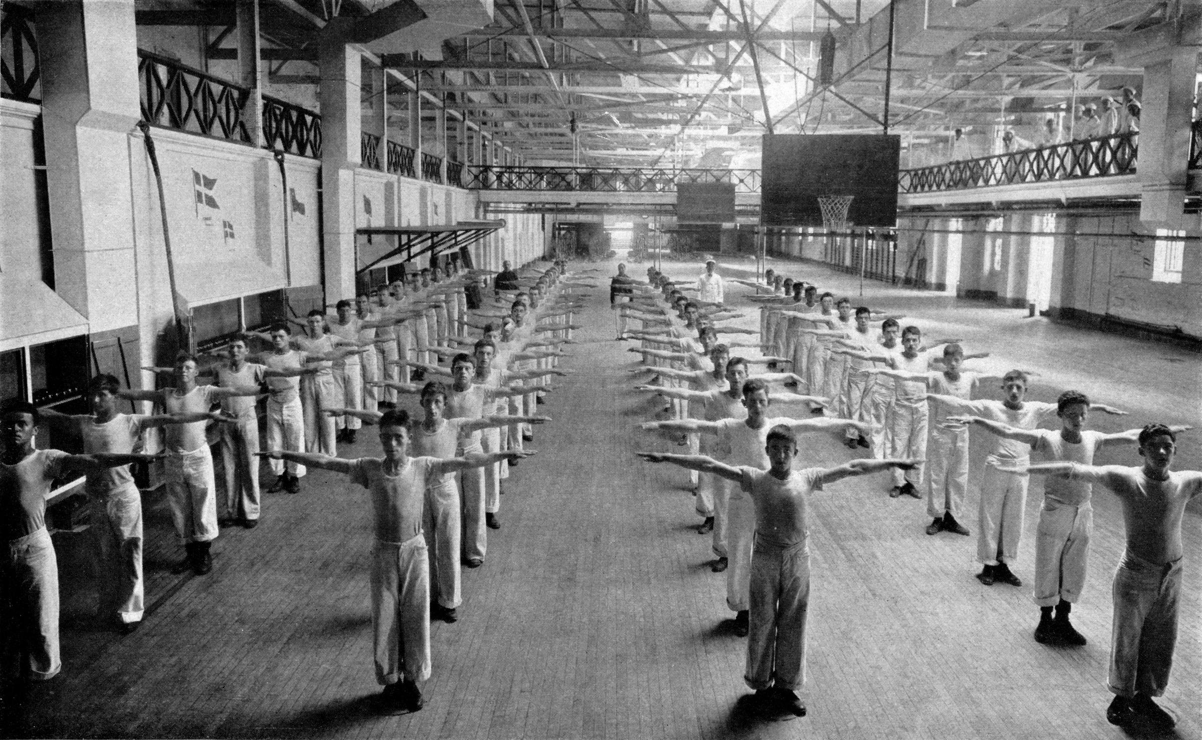 GYMNASIUM INSTRUCTION IN THE NAVAL TRAINING STATION: NEWPORT, Rhode Island. Upon the sturdy strength of these youthful shoulders the United States will rely confidently in the death struggle with the sinister German submarines; and no American doubts the courage or the stamina of these about-to-be fighting men of a navy which has never yet known inglorious defeat.